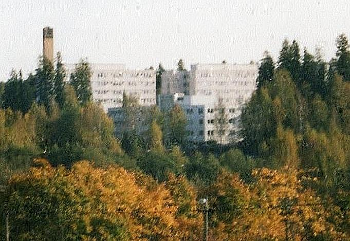 Jorvi Hospital in Espoo, Finland.